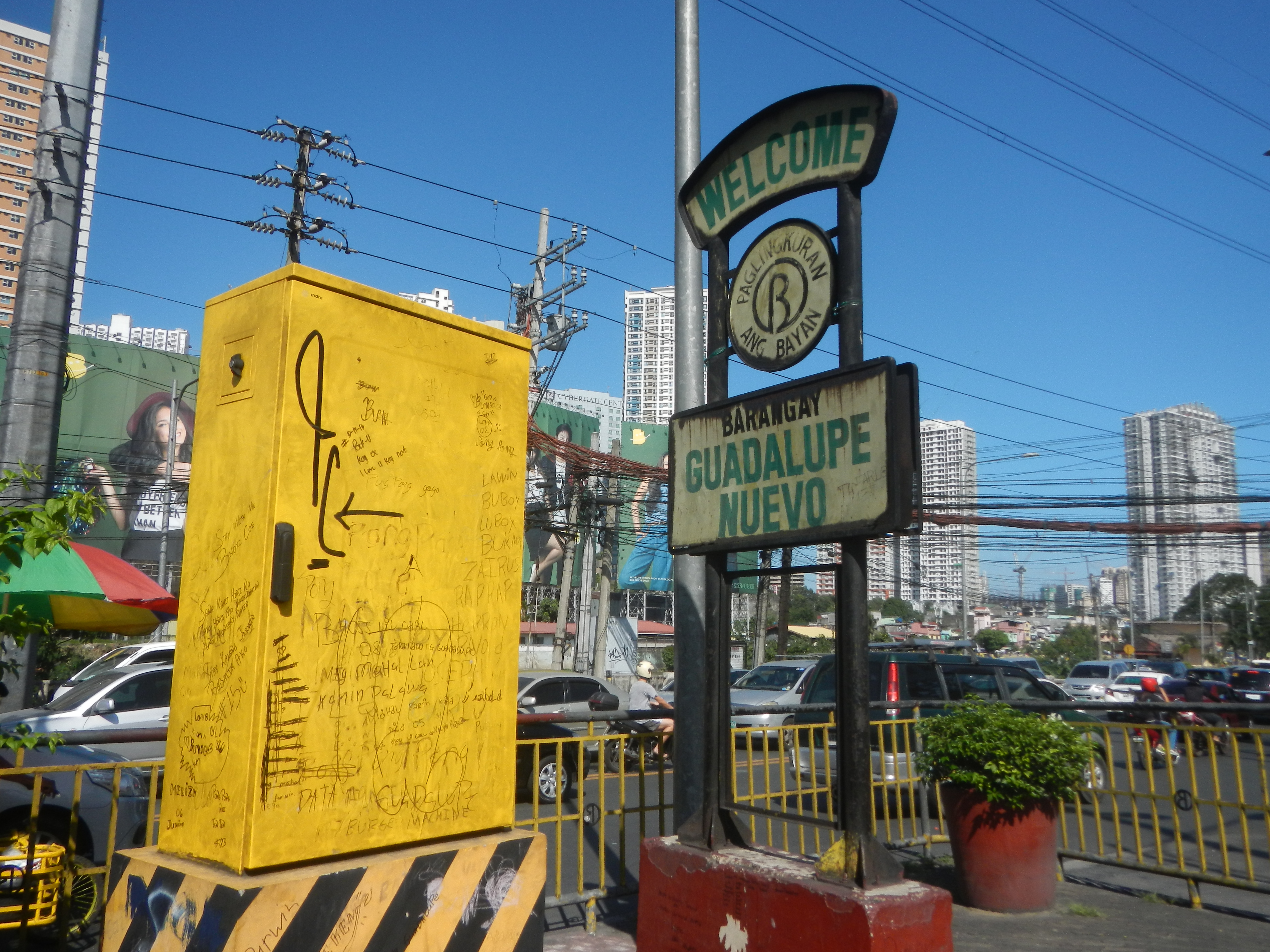 Pasig River (Park - Bay-walk, Highway Hills & Buayang Bato, Mandaluyong City - J. P. Rizal Extension, Cembo, West & East Rembo, Makati City) List of barangays of Metro Manila, Buayang Bato 14°34'10"N 121°2'57"E beside Highway Hills 14°34'47"N 121°3'3"E Mandaluyong City in front of Metropolitan Manila Development Authority Manggahan Floodway J. P. Rizal Extension, District II, Makati City 14°33'46"N 121°3'34"E J. P. Rizal Street 14°34'18"N 121°0'57"E District II, List of barangays of Metro Manila, Legislative districts of Makati, Barangays Cembo 14°33'54"N 121°3'2"E West Rembo 14°33'40"N 121°3'36"E East Rembo 14°33'11"N 121°3'42"E Barangay Northside, Makati City - Barangay 30 14°33'48"N 121°3'15"E Makati City List of rivers and estuaries in Metro Manila (Note: Judge Florentino Floro, the owner, to repeat, Donor Florentino Floro of all these photos hereby donate gratuitously, freely and unconditionally all these photos to and for Wikimedia Commons, exclusively, for public use of the public domain, and again without any condition whatsoever).